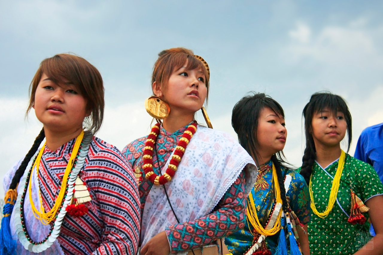 Sakela is the main festival of Kirat which is celebrated twice a year distinguished by two names Ubhauli and Udhauli. Sakela Ubhauli is celebrated during Baisakh Purnima (full moon day in the month of Baishak) and Sakela Udhauli is celebrated during the full moon day in the month of Mangshir. In this picture Kirati Chelies (sisters) are performing the Sakela Sili. This year I could fully enjoy the celebration :) dont know about next year :(